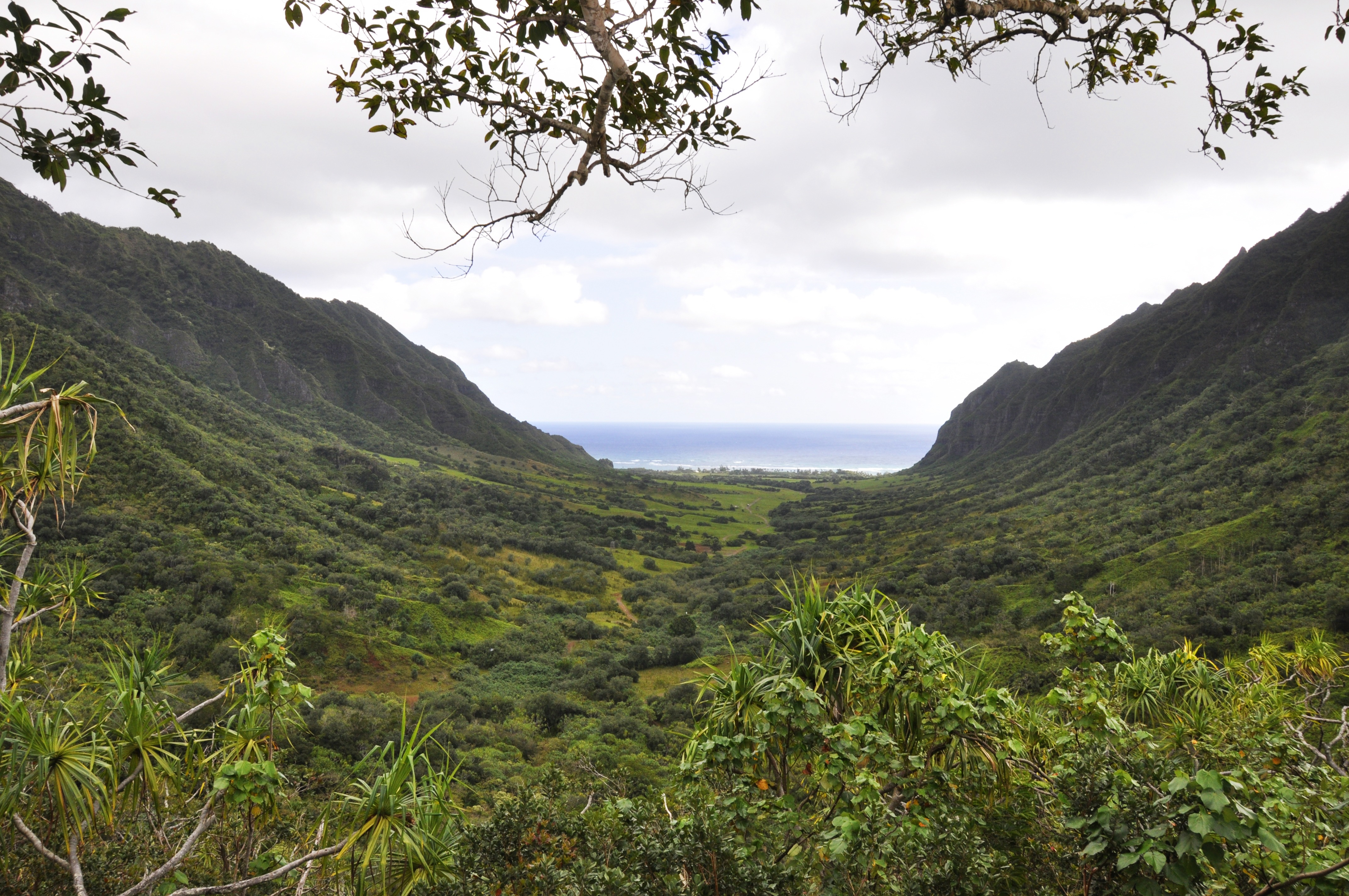 Hawaii Kualoa Ranch